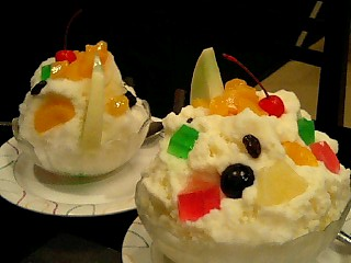 Kagoshima_Shirokuma. かき氷の白熊, Kagoshima.